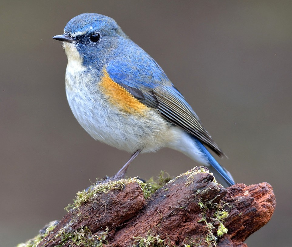 Orange-flanked Bluetail 9170 cropped